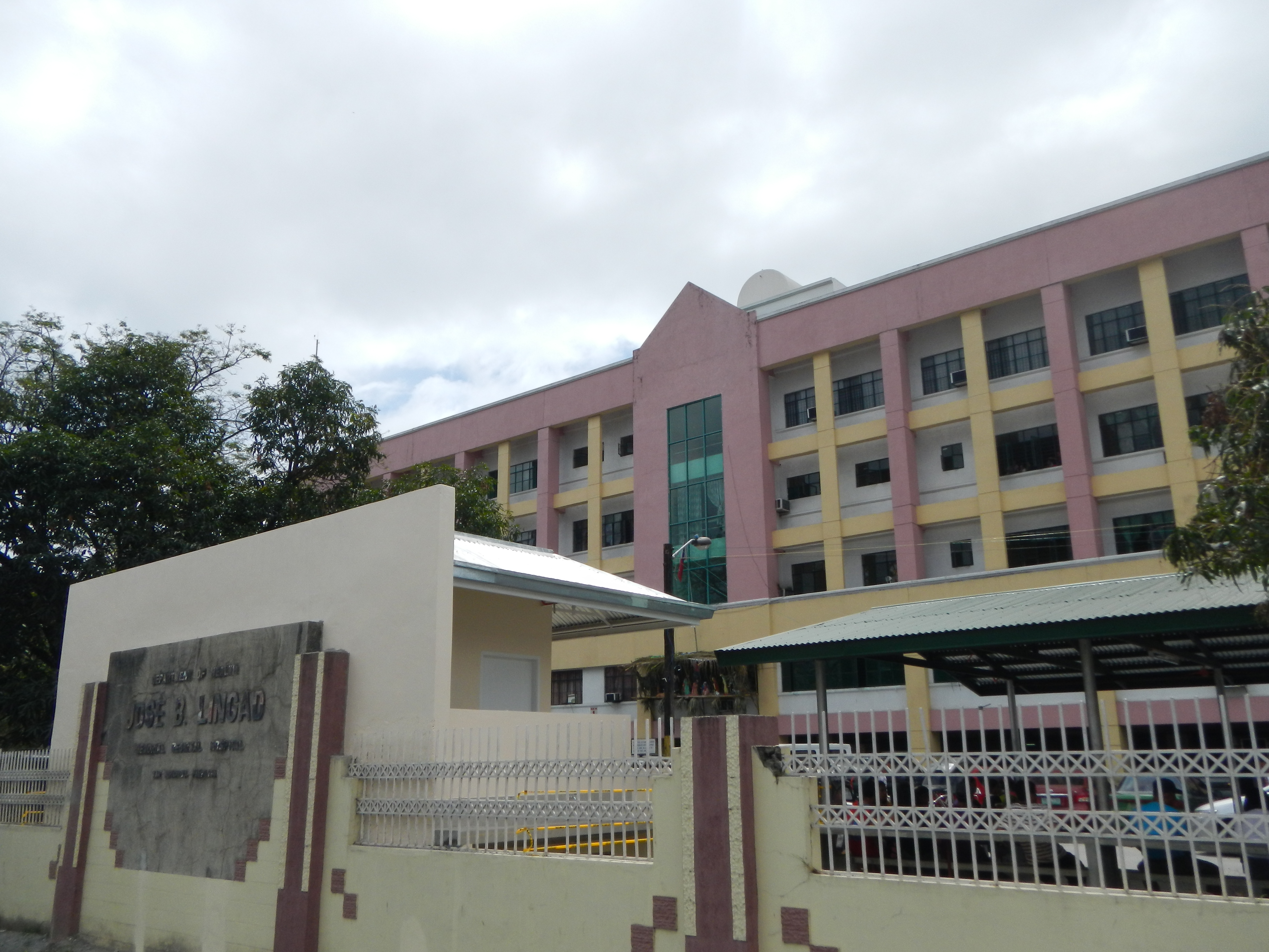 Jose B. Lingad Memorial General Hospital, City of San Fernando